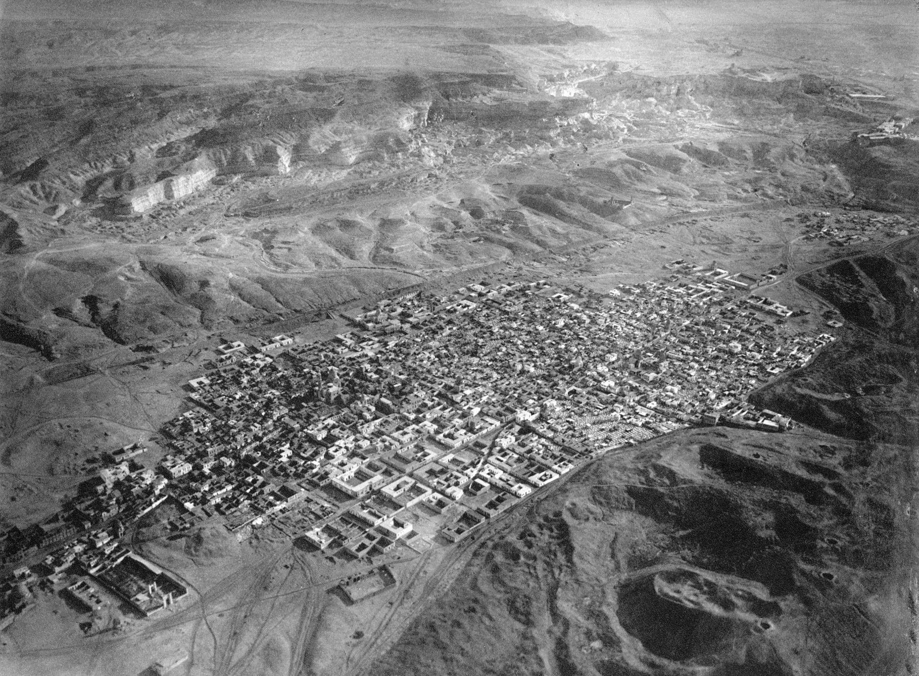 The necropolis ("city of the dead") where the Sultans are buried at Cairo, Egypt. Photographed from a balloon from about 1200 metres above ground.